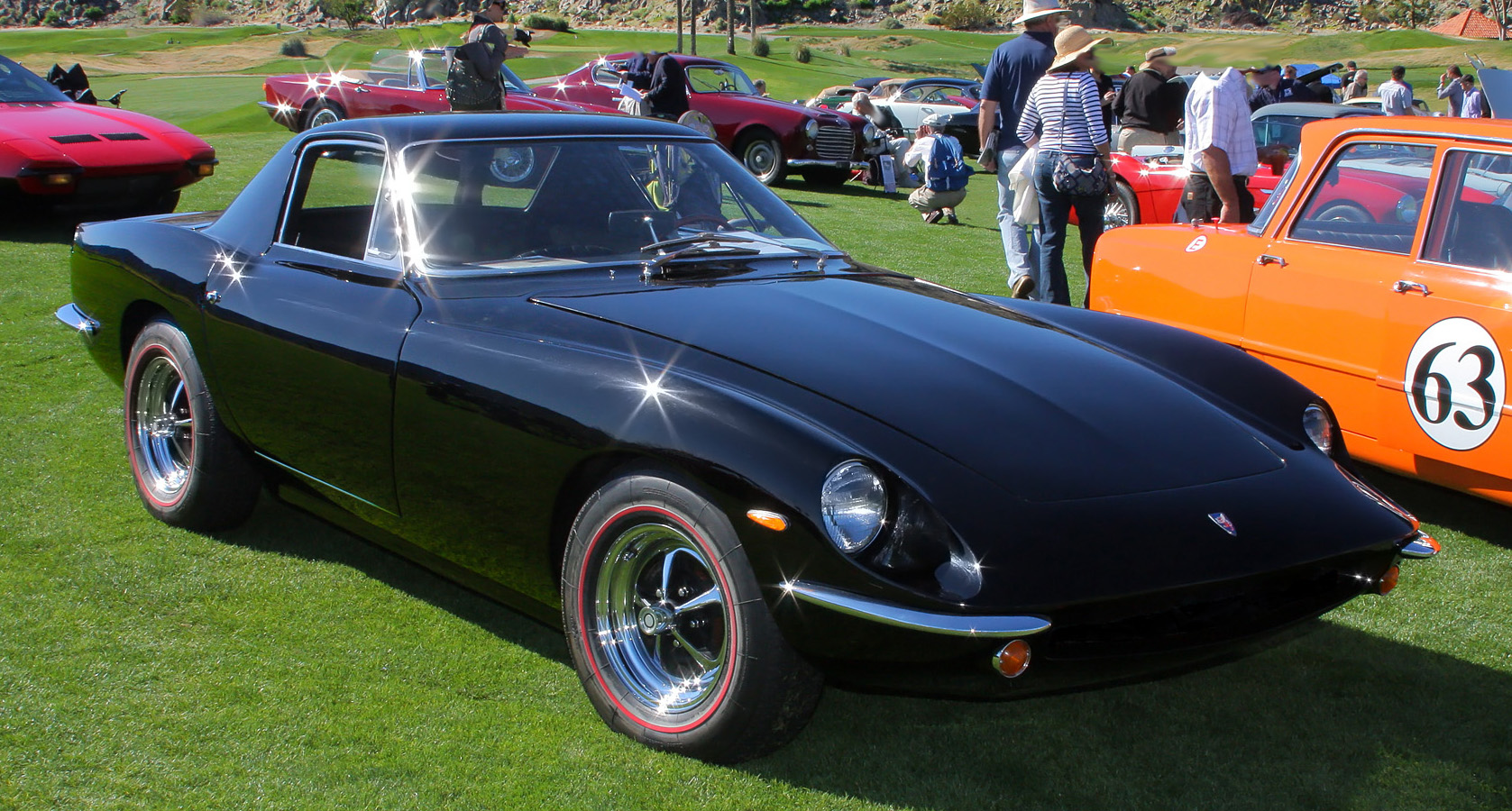 1966 Griffith 600 at the Third Annual Desert Classic Concours d'Elegance, Feb 28 2010